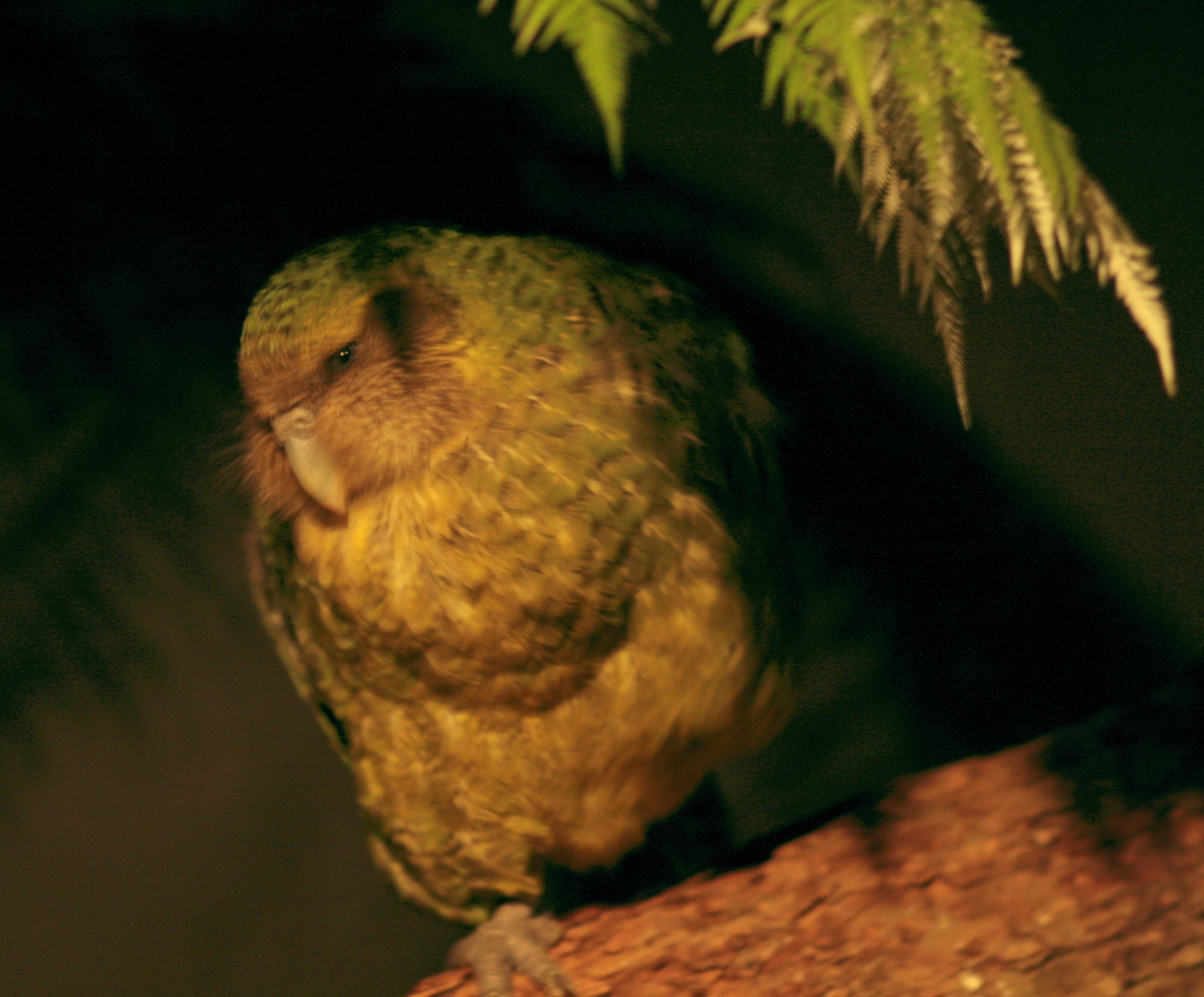 An adult male Kākāpō, named Sirocco, born in 1997 and hand-raised. On show at Auckland Zoo during September 2009.